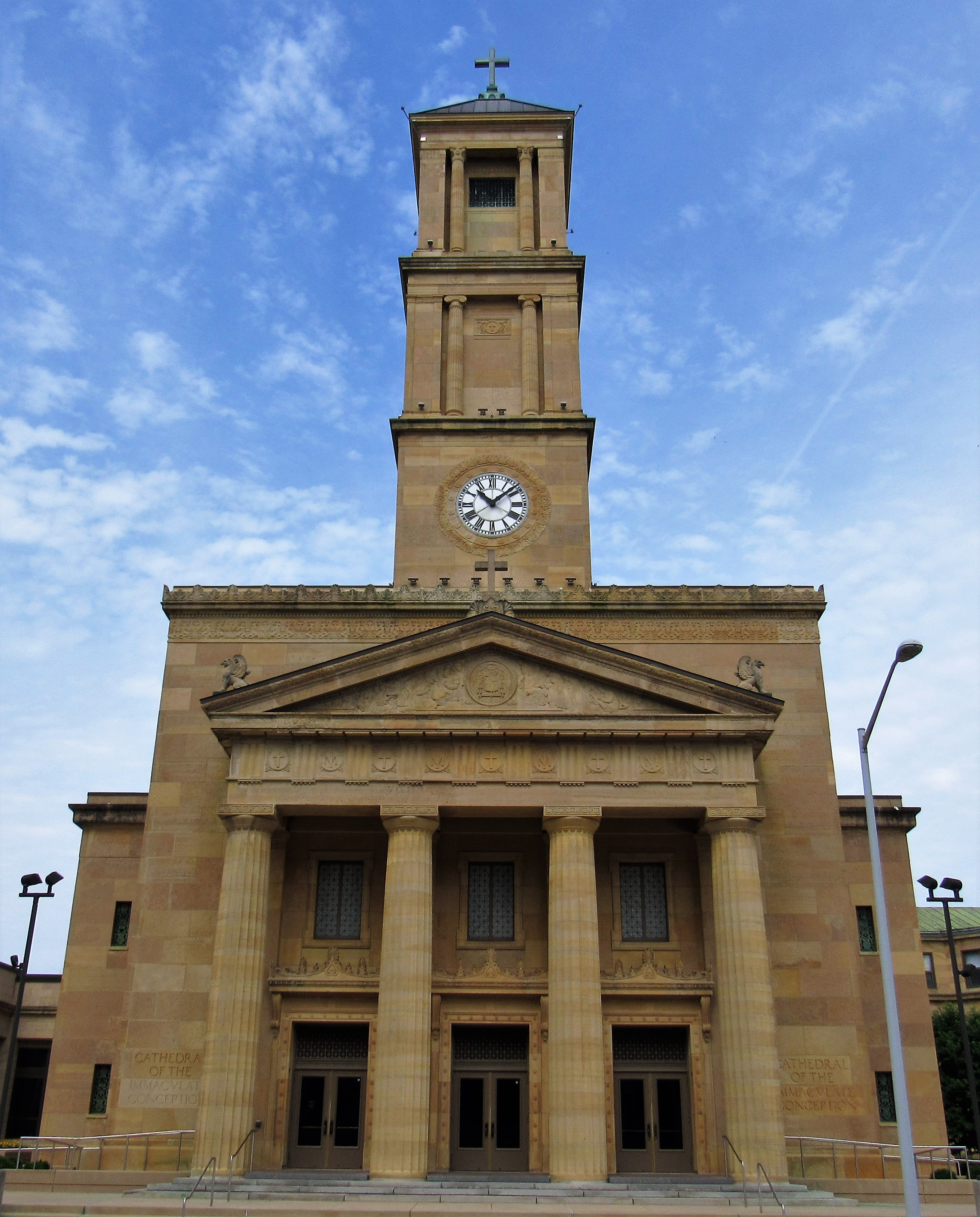 Cathedral of the Immaculate Conception in Springfield, Illinois.